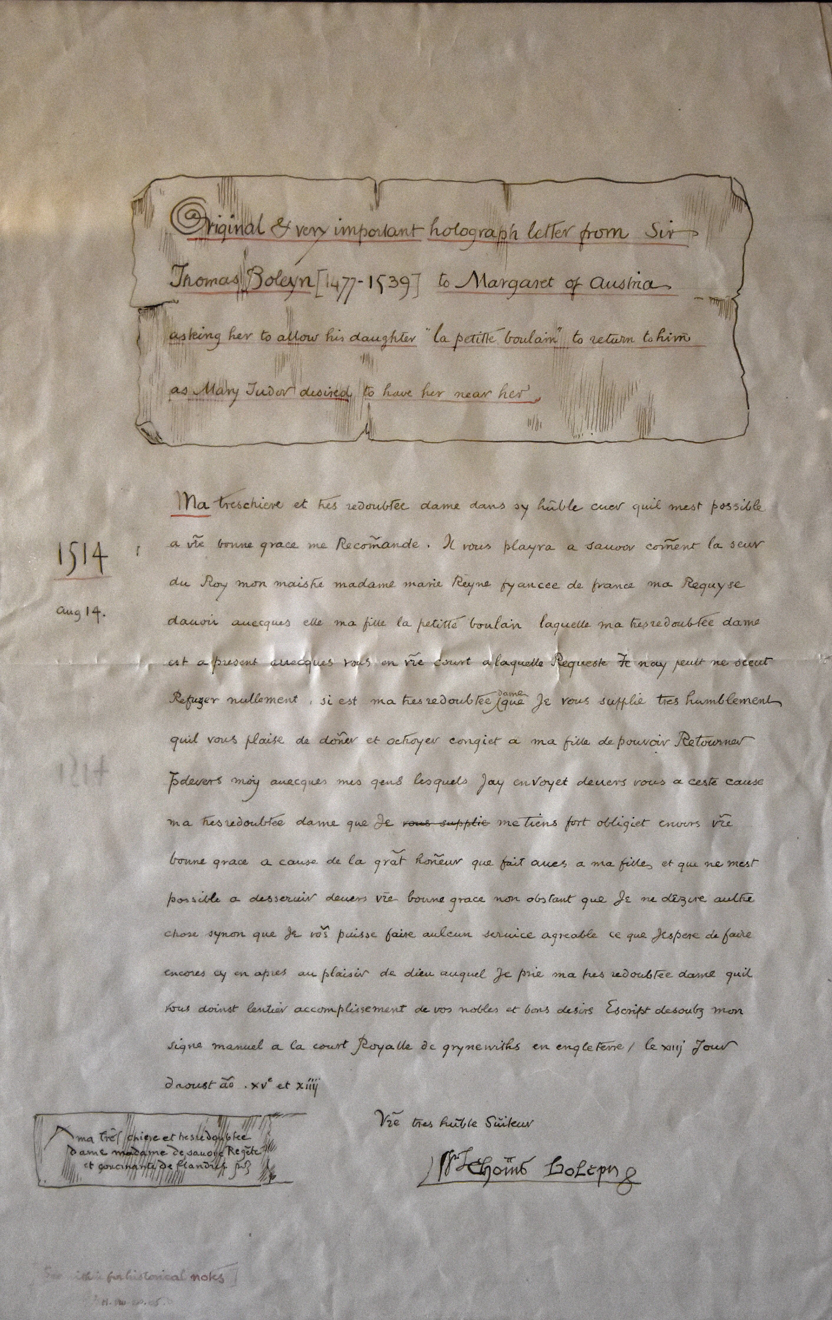 Thomas Boleyn’s letter to Margaret of Austria recalling his daughter Anne Boleyn, written from Greenwich on 14th August 1514 - Hever Castle